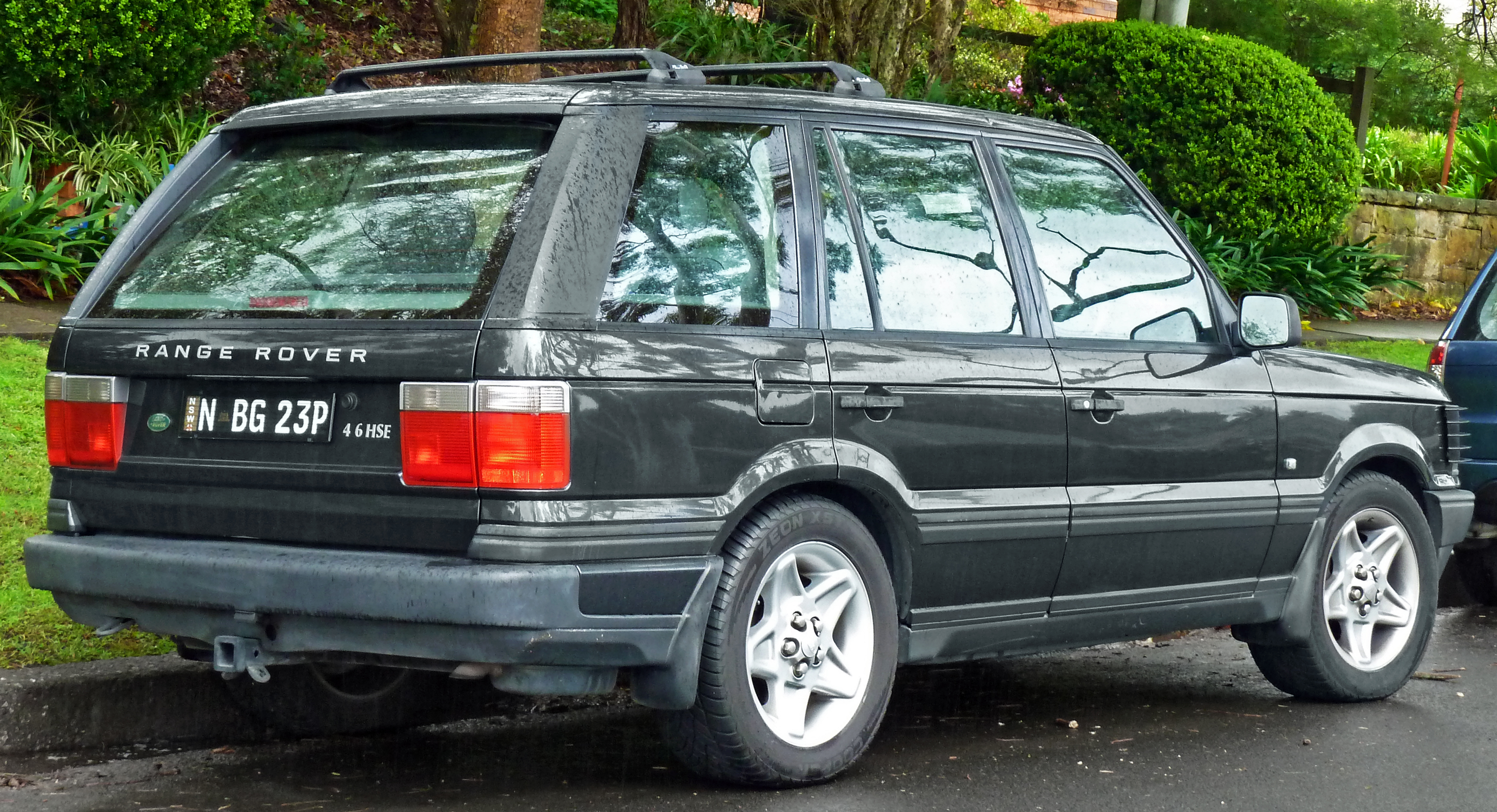 1998 Land Rover Range Rover (P38A) 4.6 HSE Autobiography wagon. Photographed in Roseville, New South Wales, Australia.